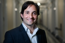 Josh Linkner at The White House Champion of Change awards, August 18, 2011